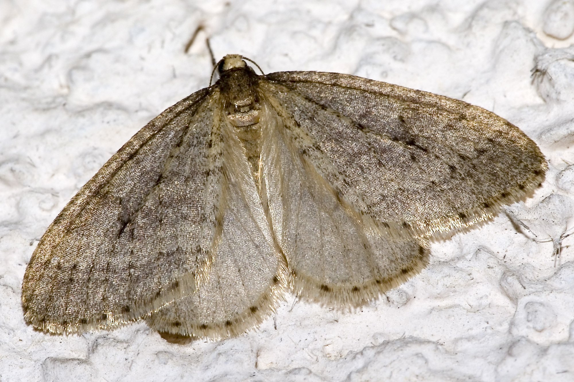 Winter Moth, Operophtera brumata